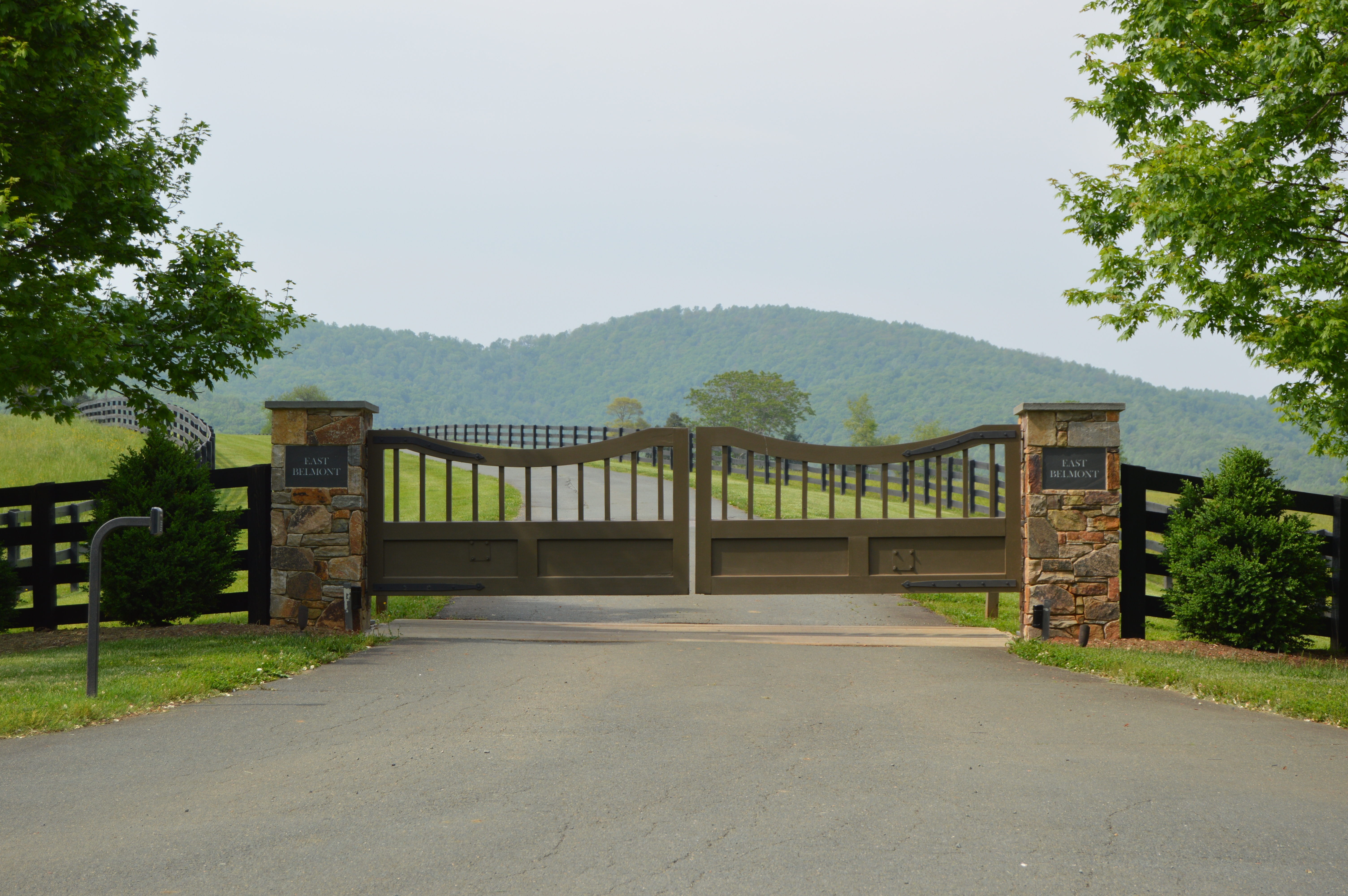 The gated entrance to the East Belmont estate, located on State Route 22 east of Charlottesville in Albemarle County, Virginia, United States. The estate is listed on the National Register of Historic Places.